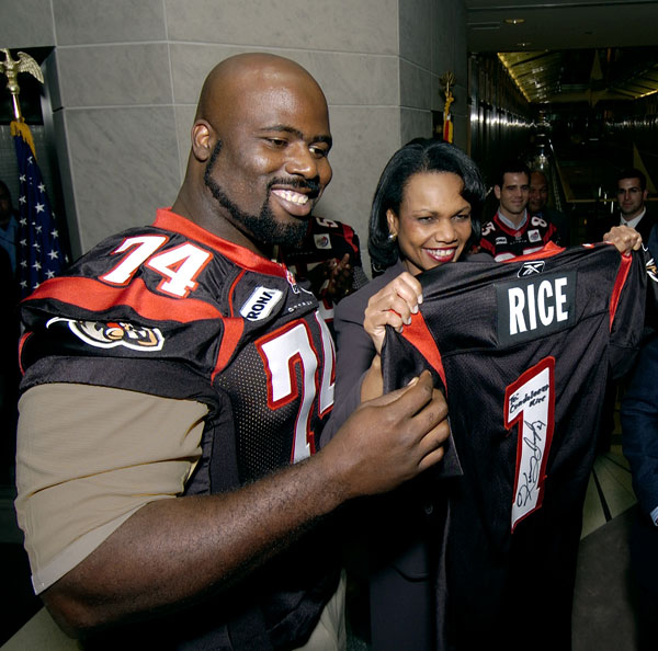 Presentation of Canadian Football League team jersey to Secretary of State Rice in Ottawa, Canada. During her October visit to Canada in 2005, Secretary Rice was presented a Canadian Football League Team jersey by Ottawa Renegades football players, at U.S. Embassy in Ottawa.